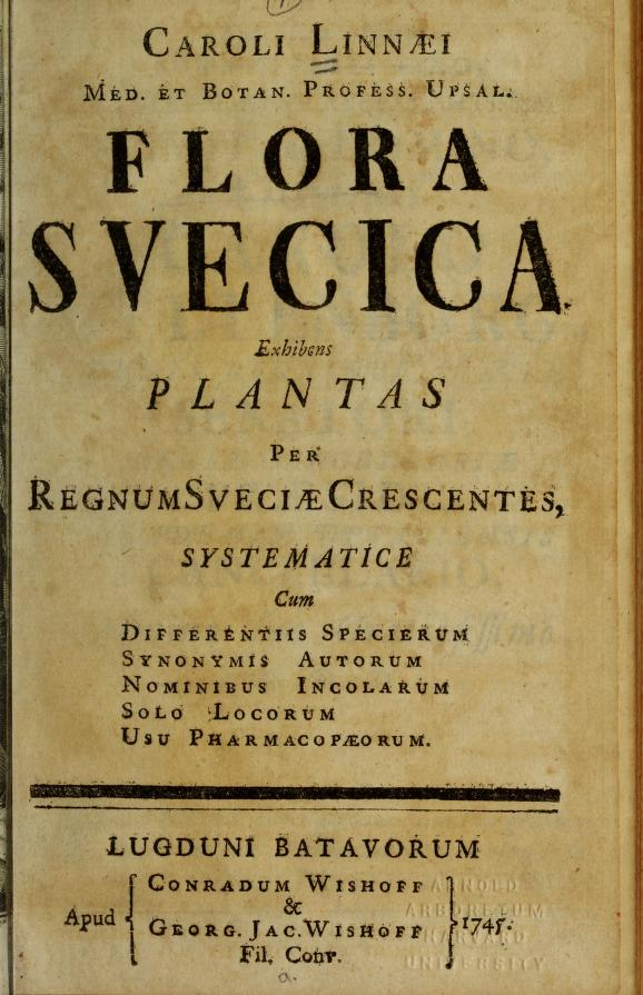 The cover of Flora Svecica : exhibens plantas per regnum Sveciæ crescentes, systematice cum differentiis specierum, synonymis autorum, nominibus incolarum, solo locorum, usu pharmacopæorum by Carl von Linné